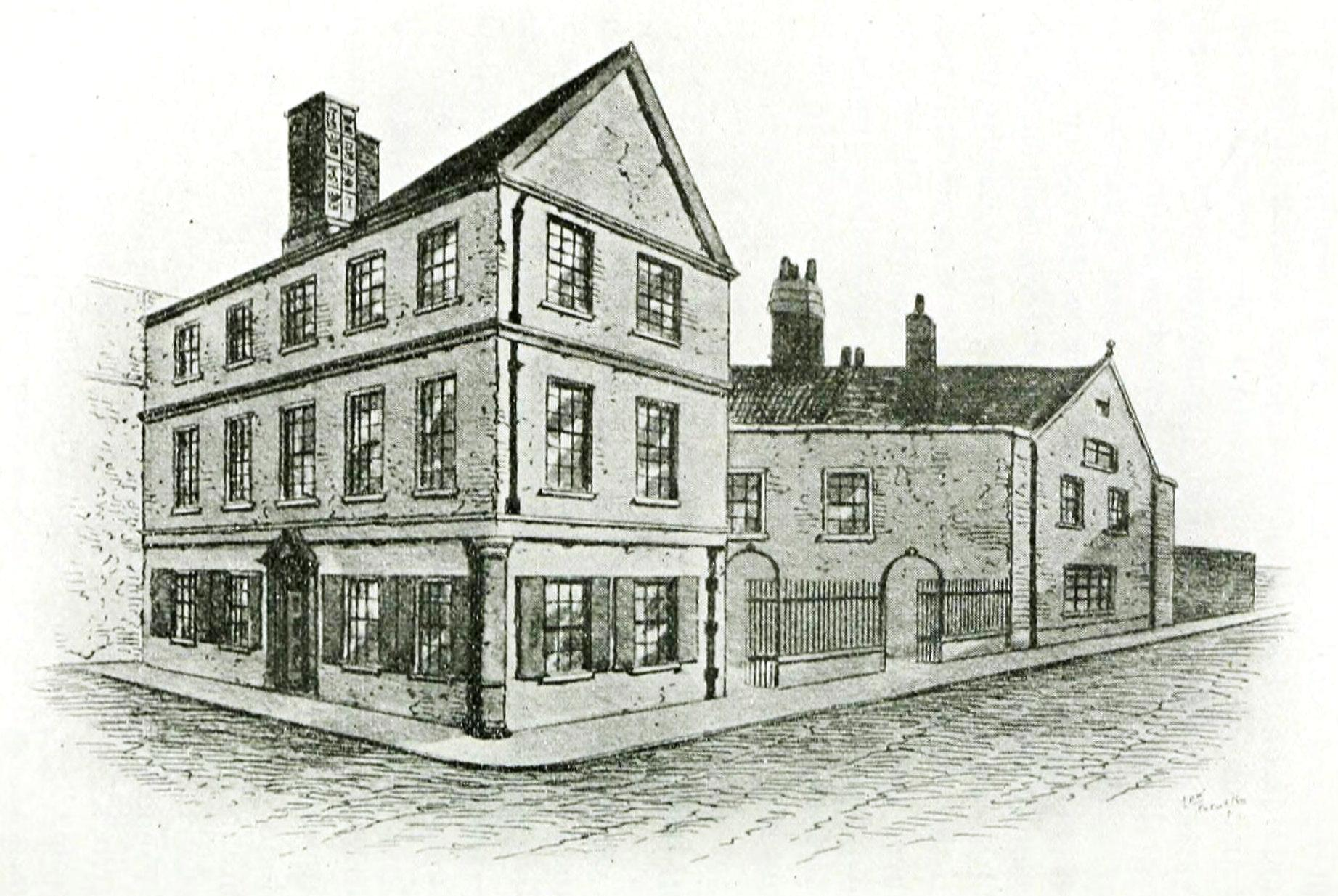 An illustration of the house previously at Haymarket, Norwich, England, where Sir Thomas Browne lived